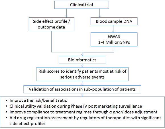 Toxgnostic discovery study workflow